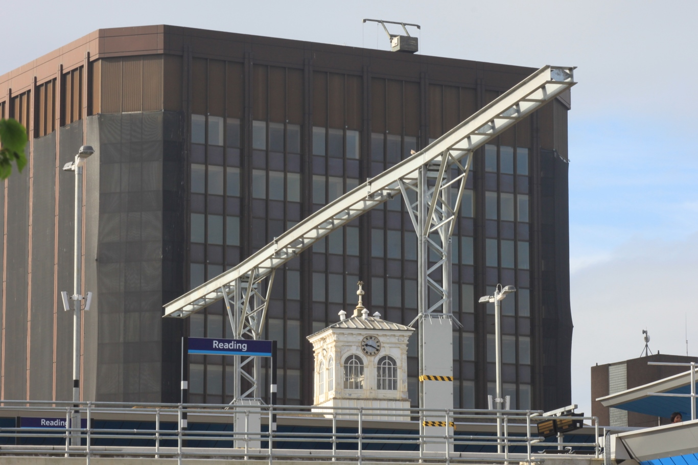 Old, modern and new at Reading railway station in April 2014. The 1860s clock tower is framed against a 20th century office block. The curious girder structure is a portal recently erected to carry electric wires for the forthcoming Great Western Main Line Electrification scheme.